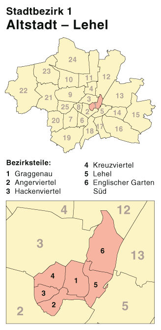 Boroughs of Munich map series